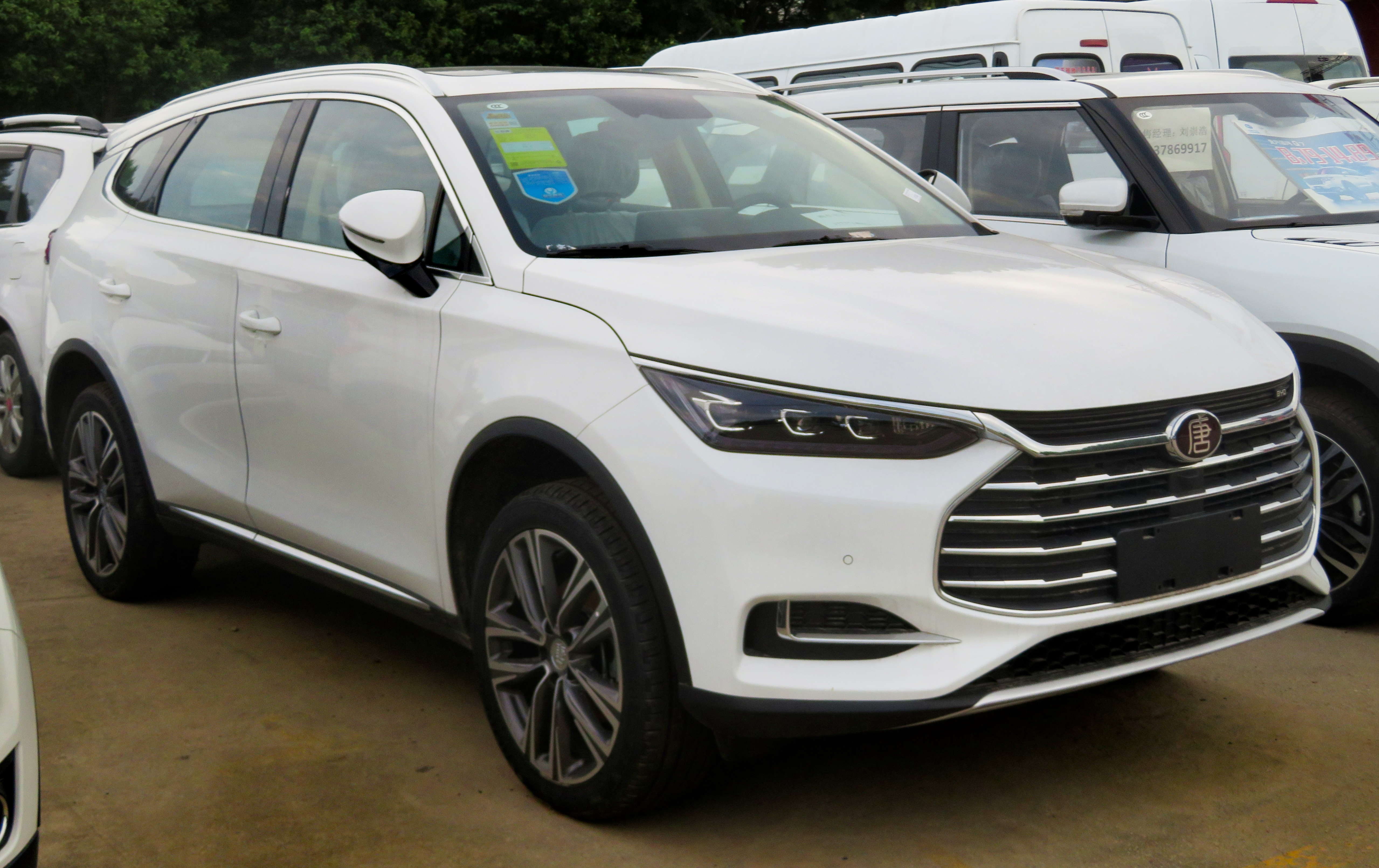 Photographed in Zhengzhou, Henan province, China